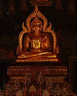 Luang Pho Phet, Wat Tha Luang in Phichit Province.